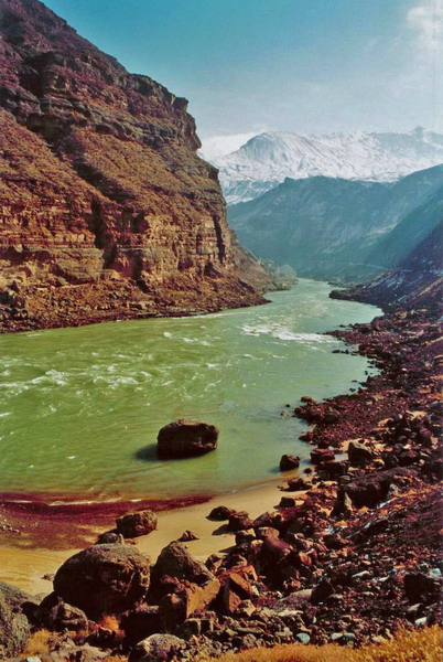 I took this photograph myself in Qinghai, in 2004. Taken by: André Holdrinet 09:54, 8 November 2006 (UTC) in Nov. 2004 This photo is also available on my TrekEarth account